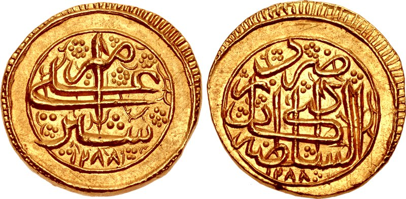 AFGHANISTAN, Barakzais. Shir 'Ali. Second reign, AH 1285-1295 / AD 1868-1878. AV Mohur (21mm, 10.92 g, 5h). Kabul mint. Dually dated AH 1288 on obverse and reverse (AD 1871/2). SICA 9, –; Album E3164; KM 525 (this coin illustrated); Friedberg 18. Superb EF, minor edge ding. Exremely rare.